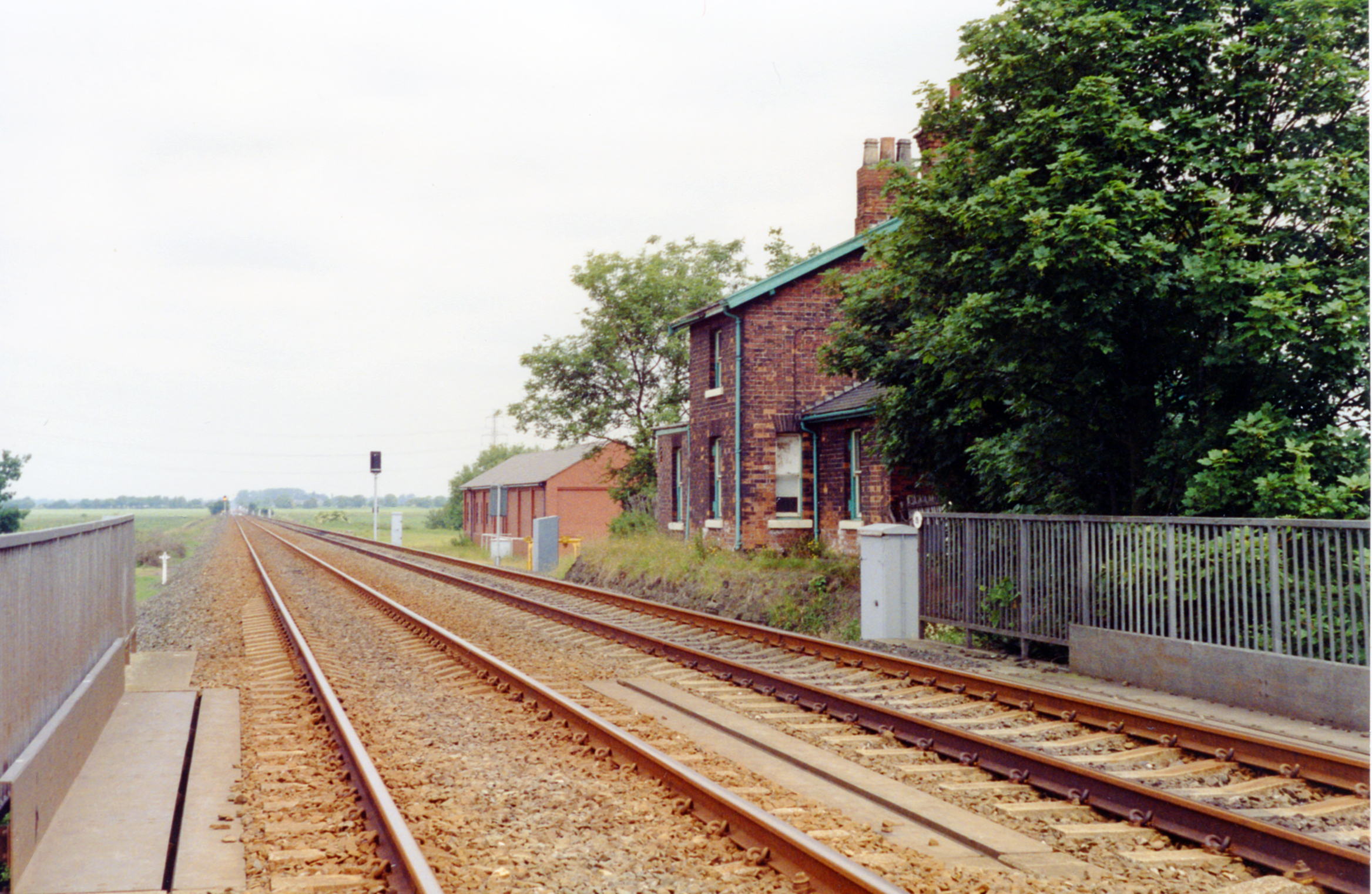 Temple Hirst station (remains), 1992. View northward, towards Selby and Hull, also formerly York etc. Until the Selby Deviation was opened in 10/83, which branches off just to the south to pass west of Selby and joins the Leeds - York main line at Colton Junction, this ex-NER line was the (Doncaster) - Shaftholme Junction - Selby stretch of the East Coast Main Line. The station was closed to passengers 6/3/61 (goods 6/7/64).